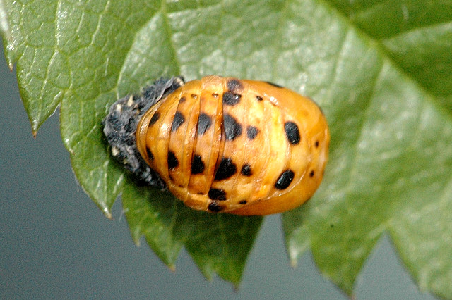 Picture taken in Commanster, Belgian High Ardennes . Species: This is NOT a Harmonia axyridis pupa, but (most probably) rather a Coccinella septempunctata (!)